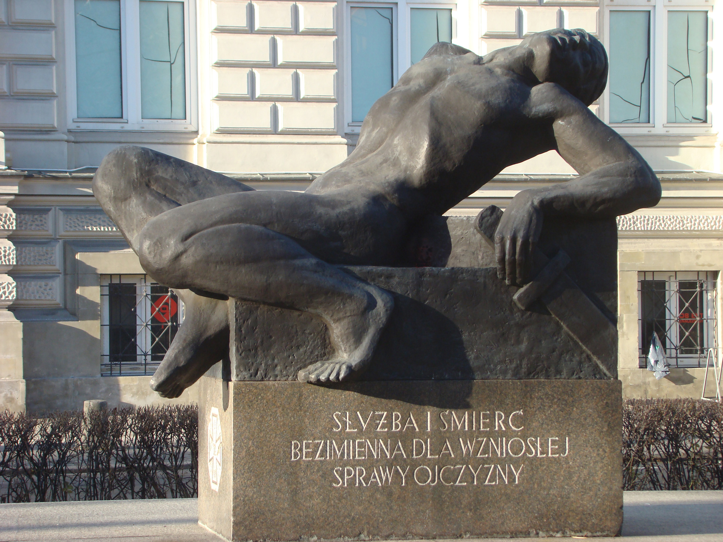 Peowiak monument in Warsaw